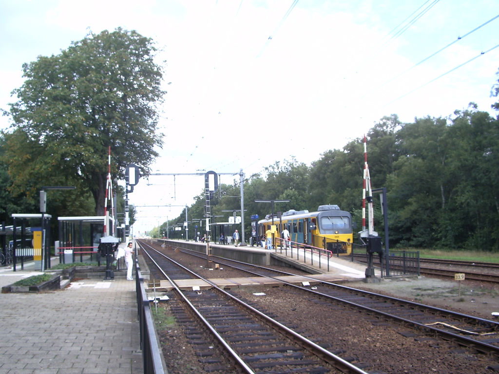 Mariënberg railway station, Netherlands, augustus 2006. Train (Veenexpres = Wadloper) to Almelo.